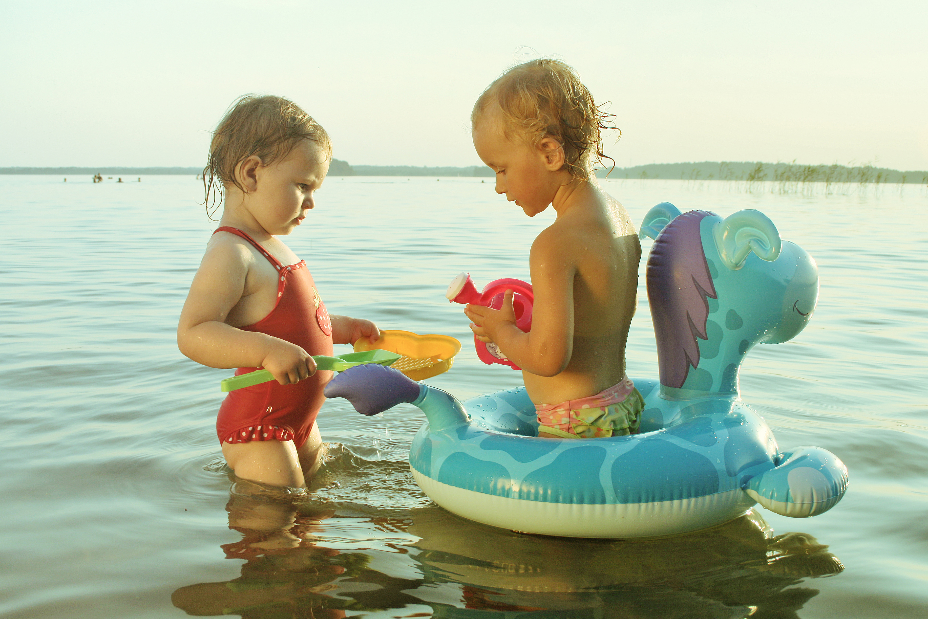 In water with toys: guste and auguste